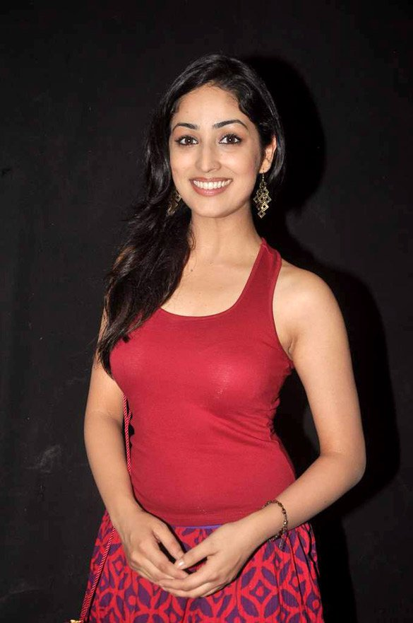 Yami gautam audio release vicky donor